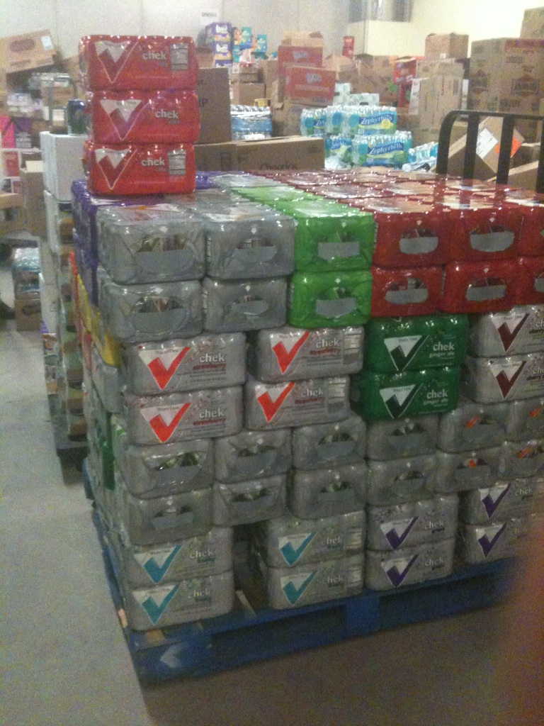 This is a pallet of Chek branded sodas in the backroom of a Winn-Dixie store in Port Charlotte, Florida.